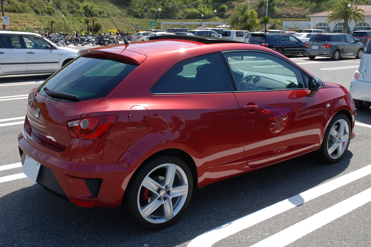 SEAT Ibiza Bocanegra in Japan